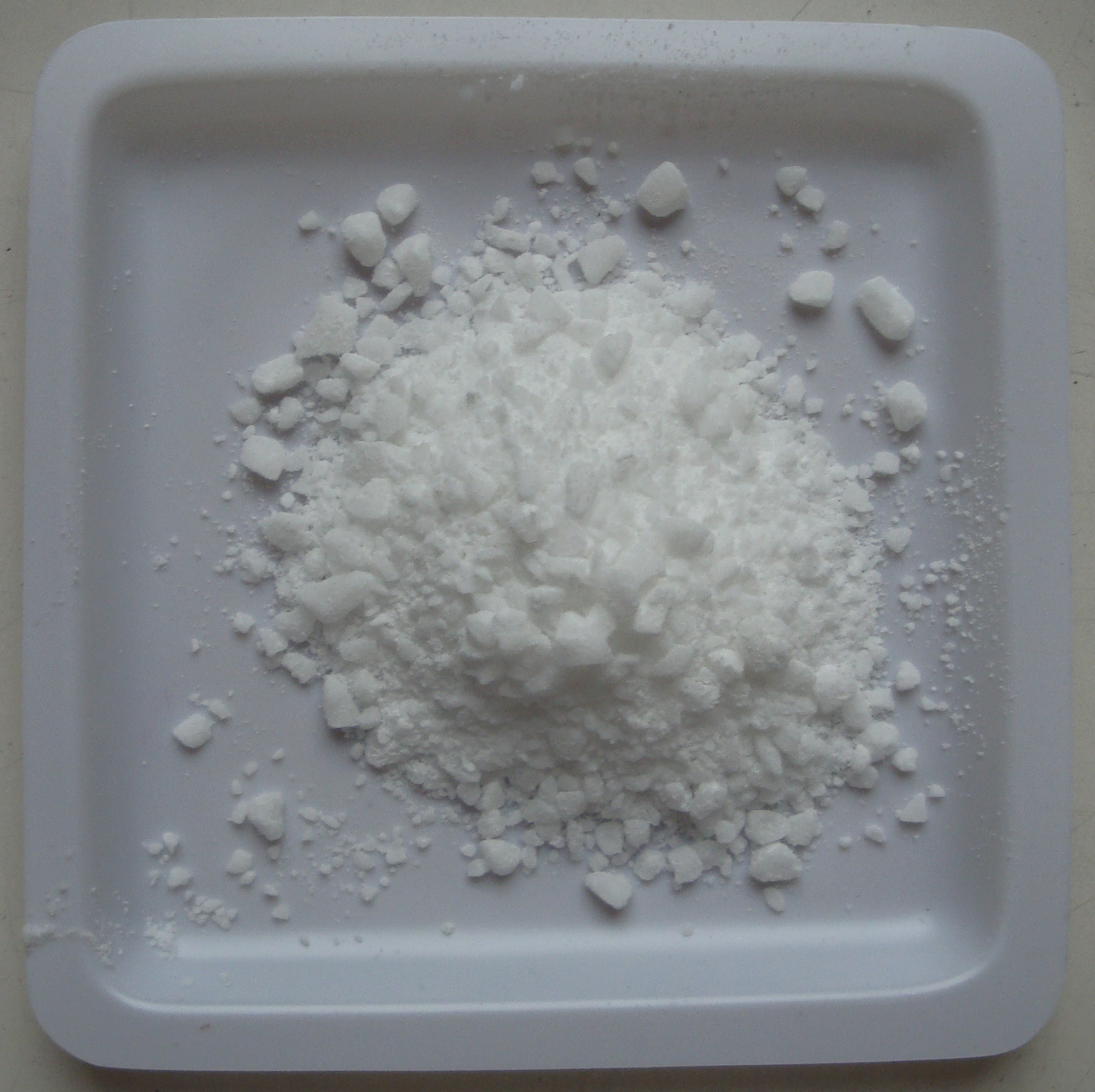 Hydroxyle alkyl amide is an important hardener for polyester resins in powder coatings